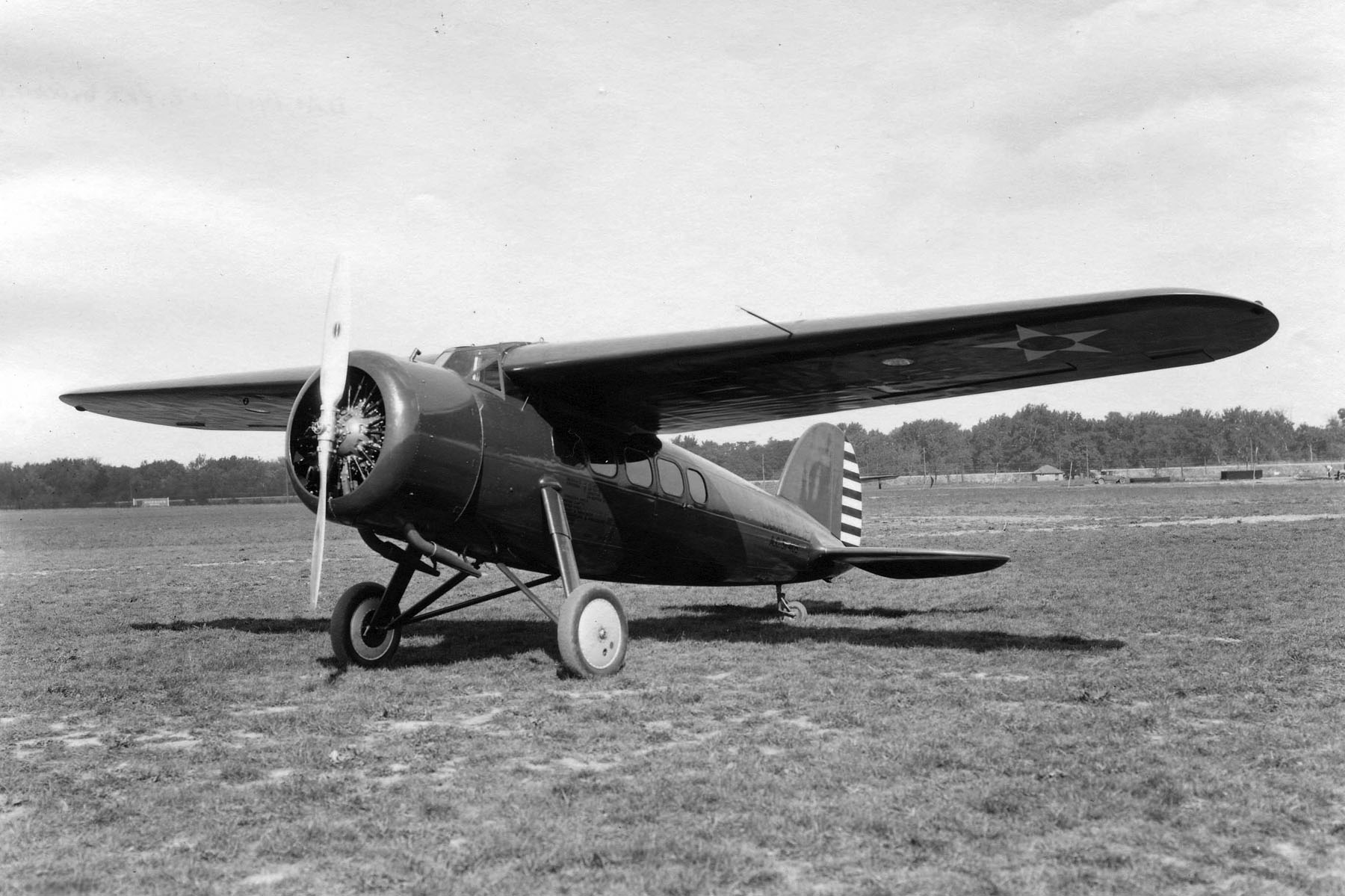 Detroit Y1C-12, (Lockheed Vega) used for testing by Air Corps, had monocoque aluminum fuselage. Built in 1931.